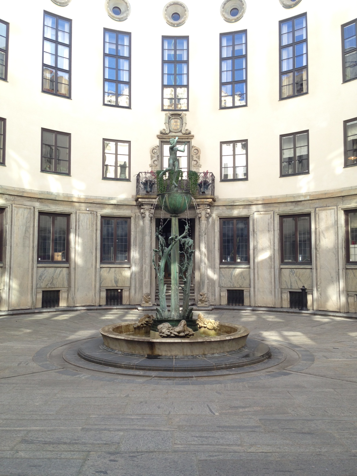 Swedish Match Headquarters in Stockholm, Sweden, view of the courtyard